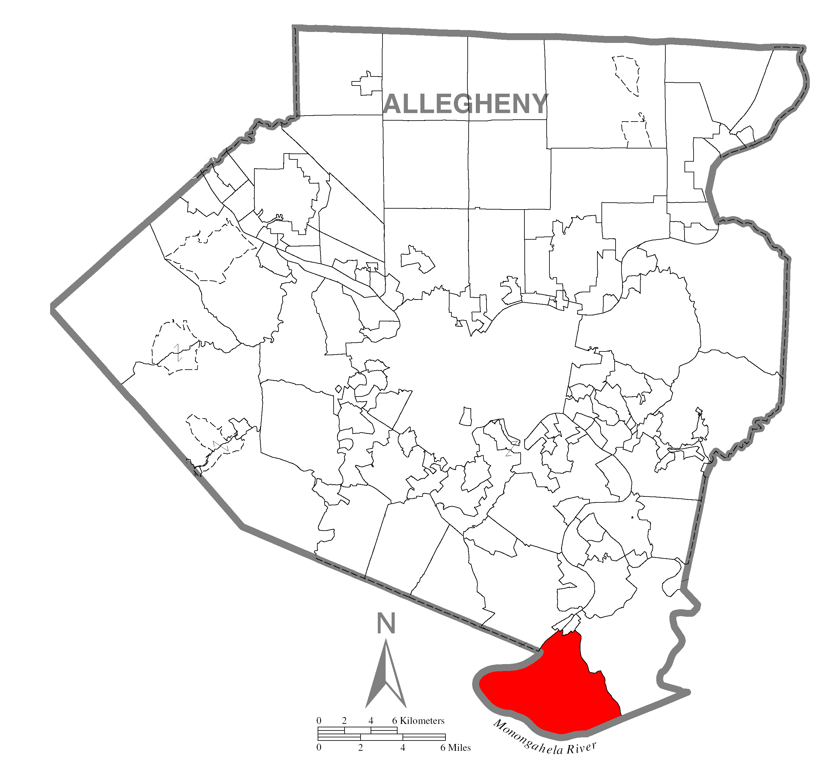 A map of Allegheny County showing Forward Township, Pennsylvania (alternate) highlighted on the map.